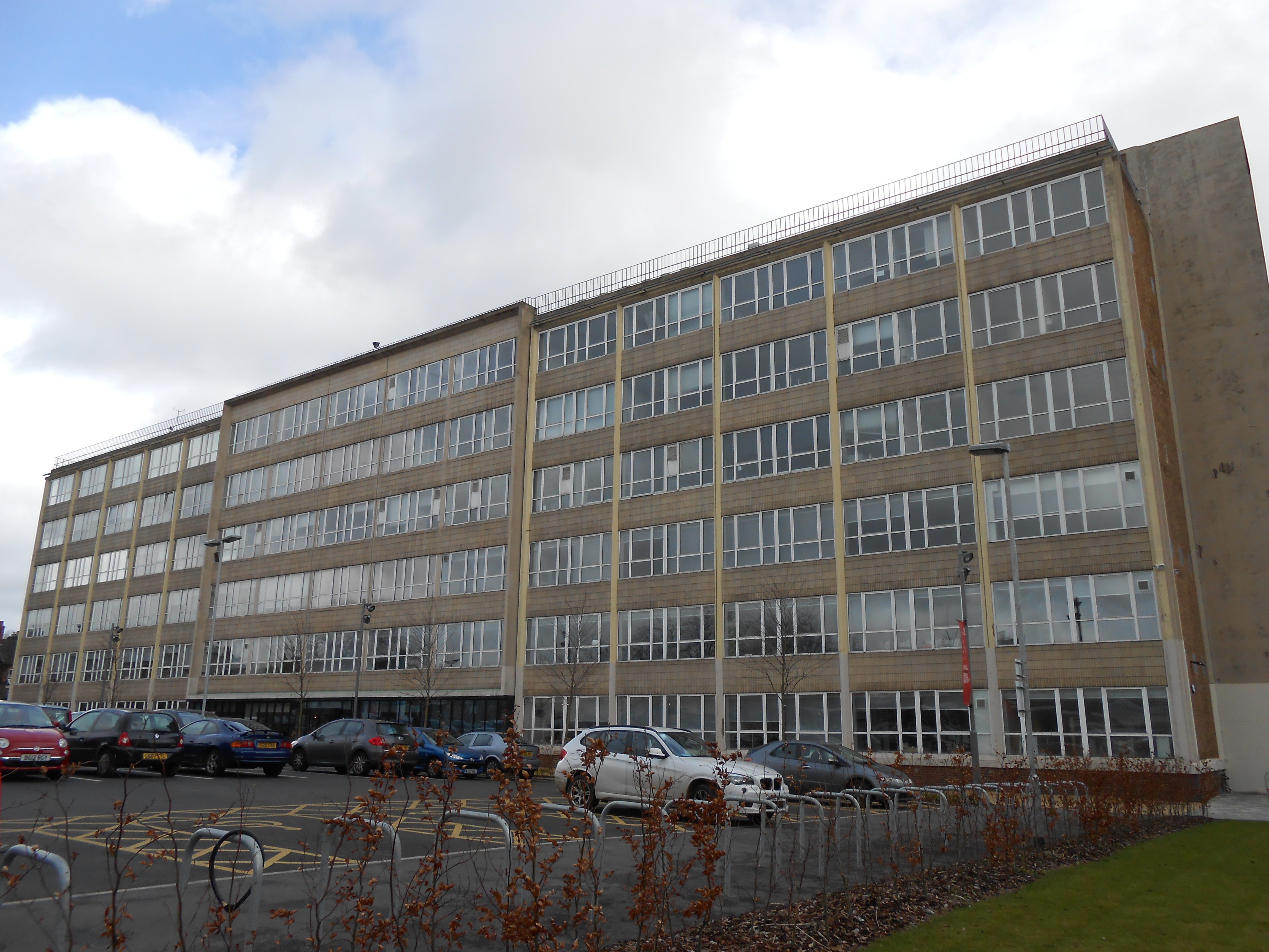 Staffordshire University Mellor Building, College Road, Stoke-on-Trent, England.